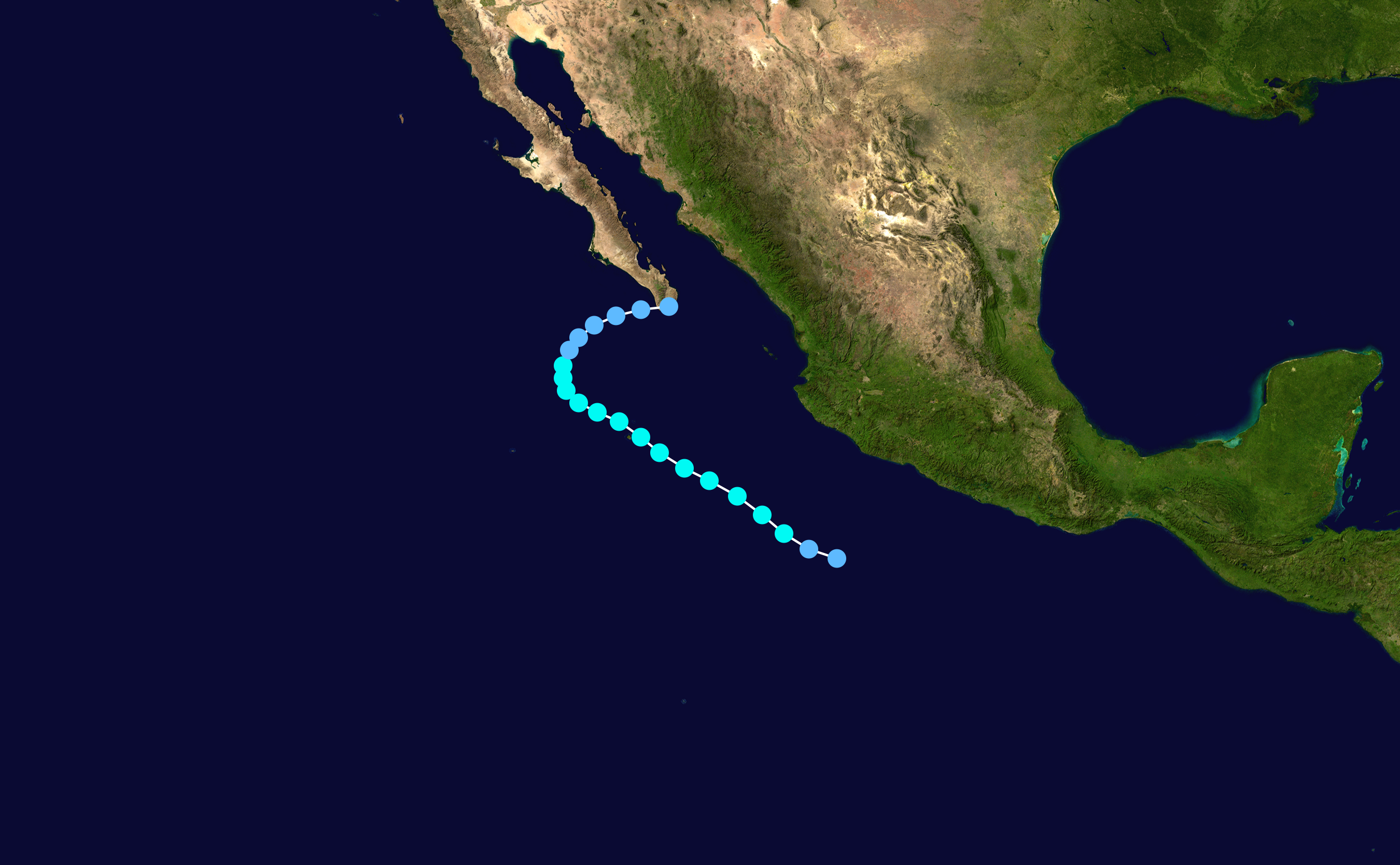 Track map of Tropical Storm Lowell of the 2008 Pacific hurricane season. The points show the location of the storm at 6-hour intervals. The colour represents the storm's maximum sustained wind speeds as classified in the Saffir–Simpson scale (see below), and the shape of the data points represent the nature of the storm, according to the legend below. Saffir–Simpson scale Tropical depression≤38 mph≤62 km/h Category 3111–129 mph178–208 km/h Tropical storm39–73 mph63–118 km/h Category 4130–156 mph209–251 km/h Category 174–95 mph119–153 km/h Category 5≥157 mph≥252 km/h Category 296–110 mph154–177 km/h Unknown Storm type Tropical cyclone Subtropical cyclone Extratropical cyclone / Remnant low / Tropical disturbance / Monsoon depression